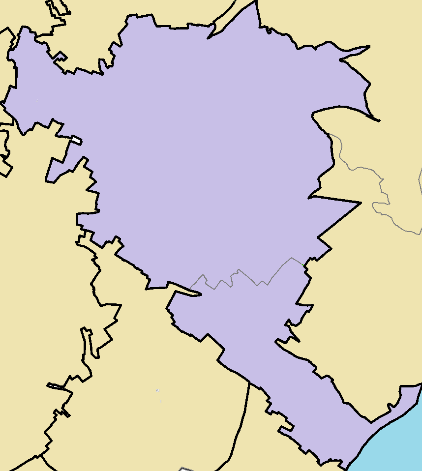 Dromolaxia-Meneou Municipality with quarters.